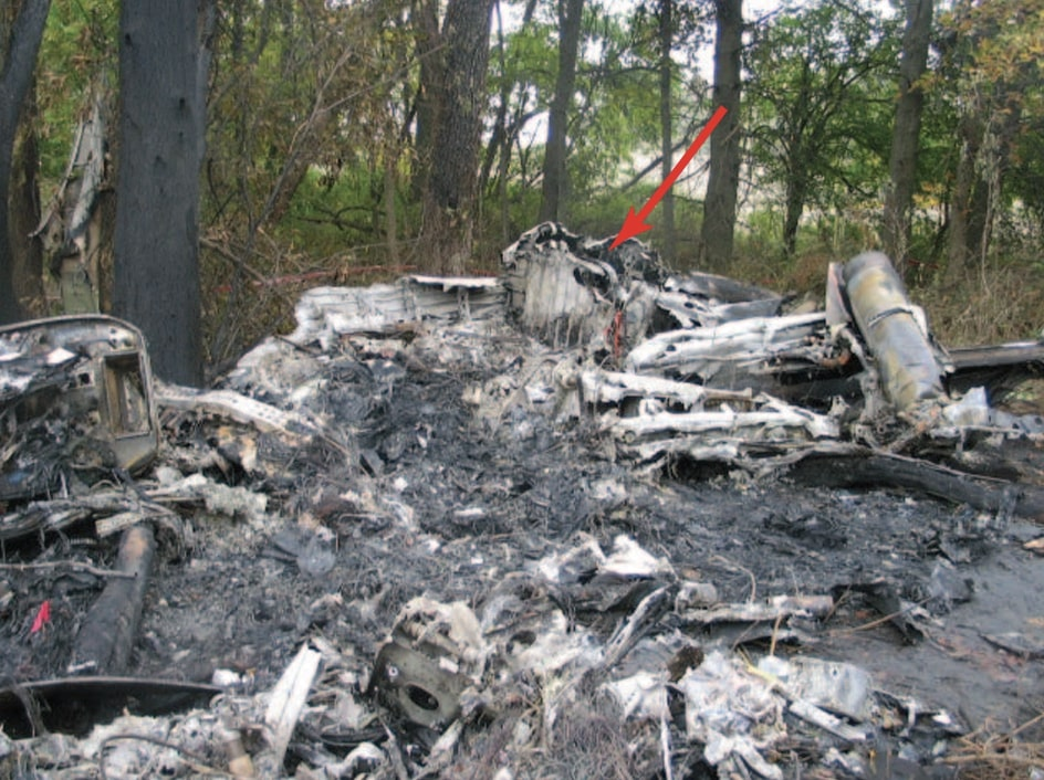 Corporate Airlines 5966 - Photograph of main wreckage area. The forward section of the airplane is in the foreground, and the tail section is in the background (the aft pressure bulkhead is indicated by the red arrow).